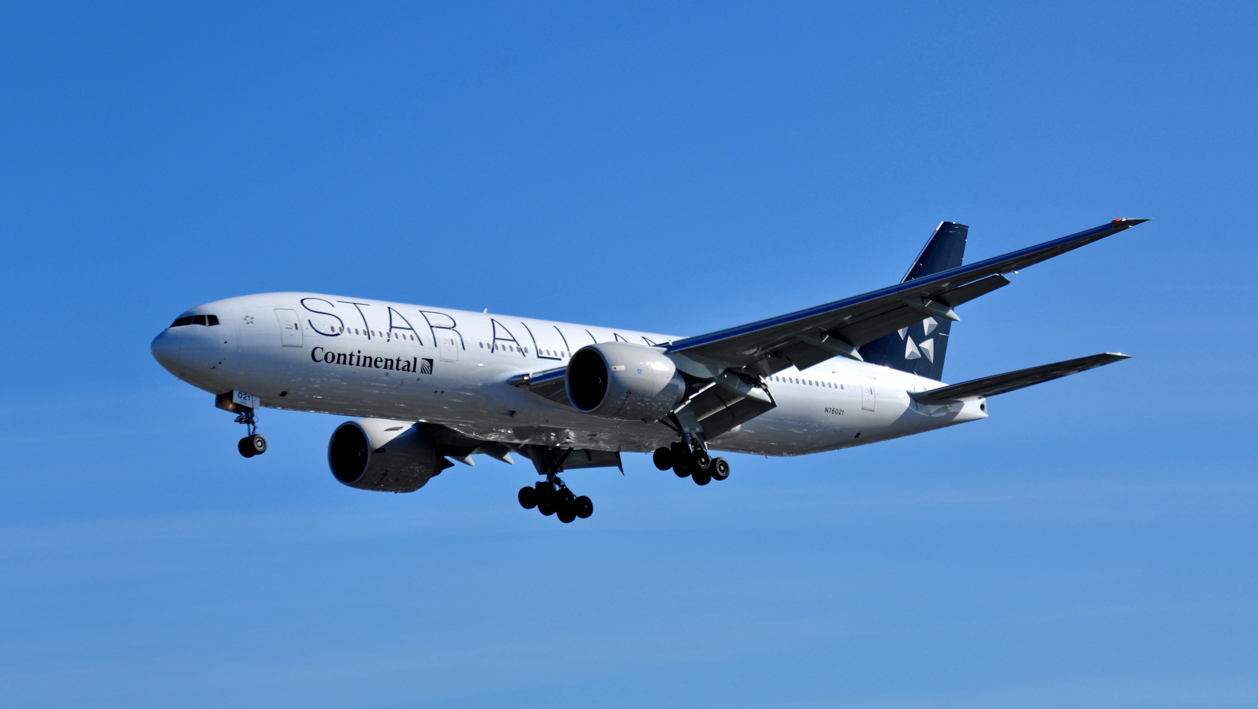 Boeing 777-224ER - Star Alliance (Continental Airlines) (reg: N76021)